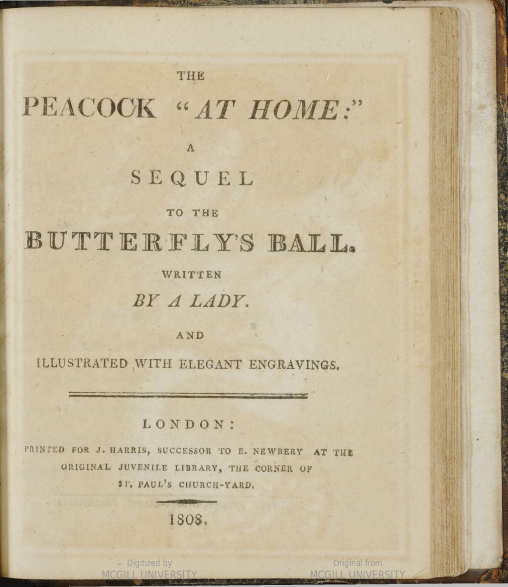 The Peacock At Home - by A Lady